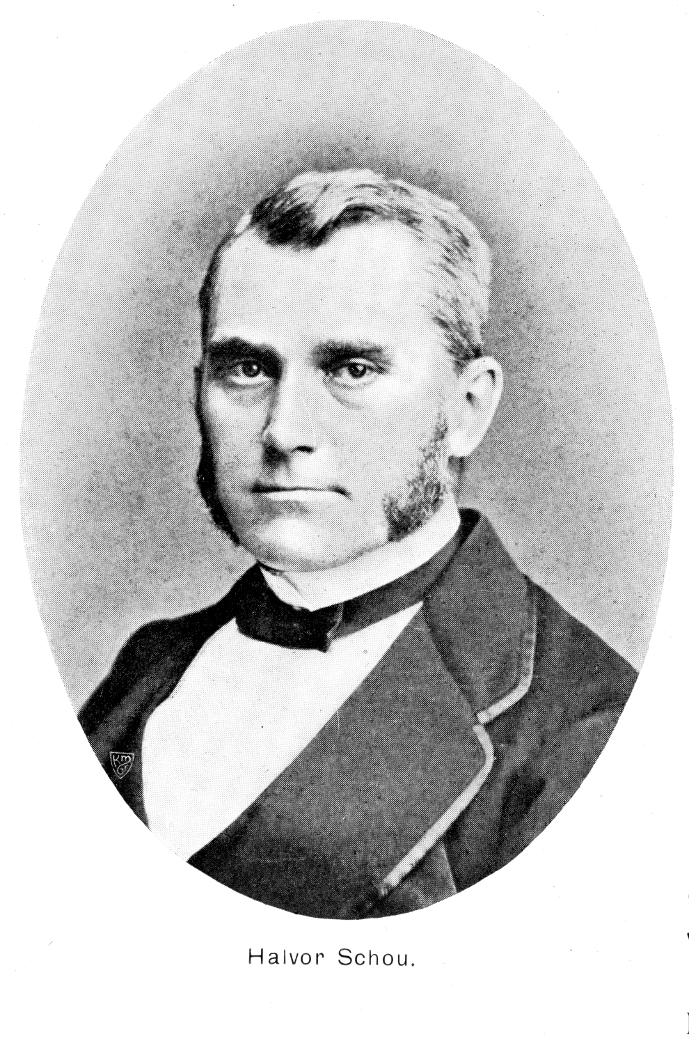 Halvor Arntzen Schou (1823-1879) norwegian businessman.